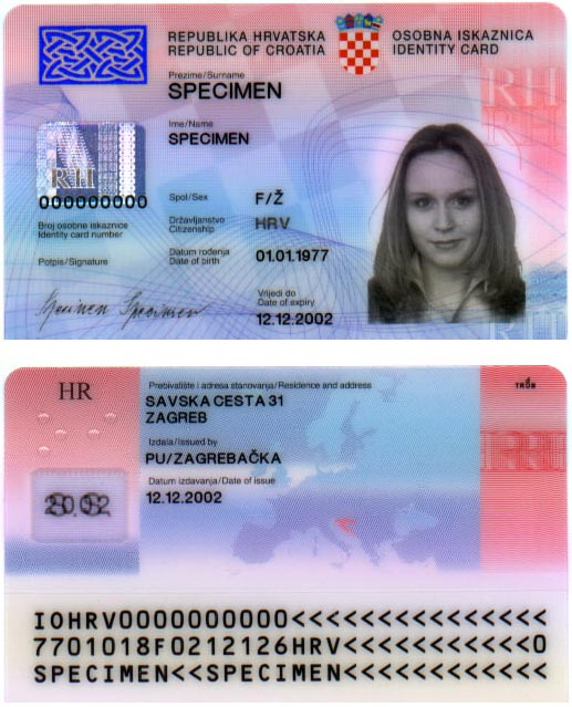 Croatian ID card specimen